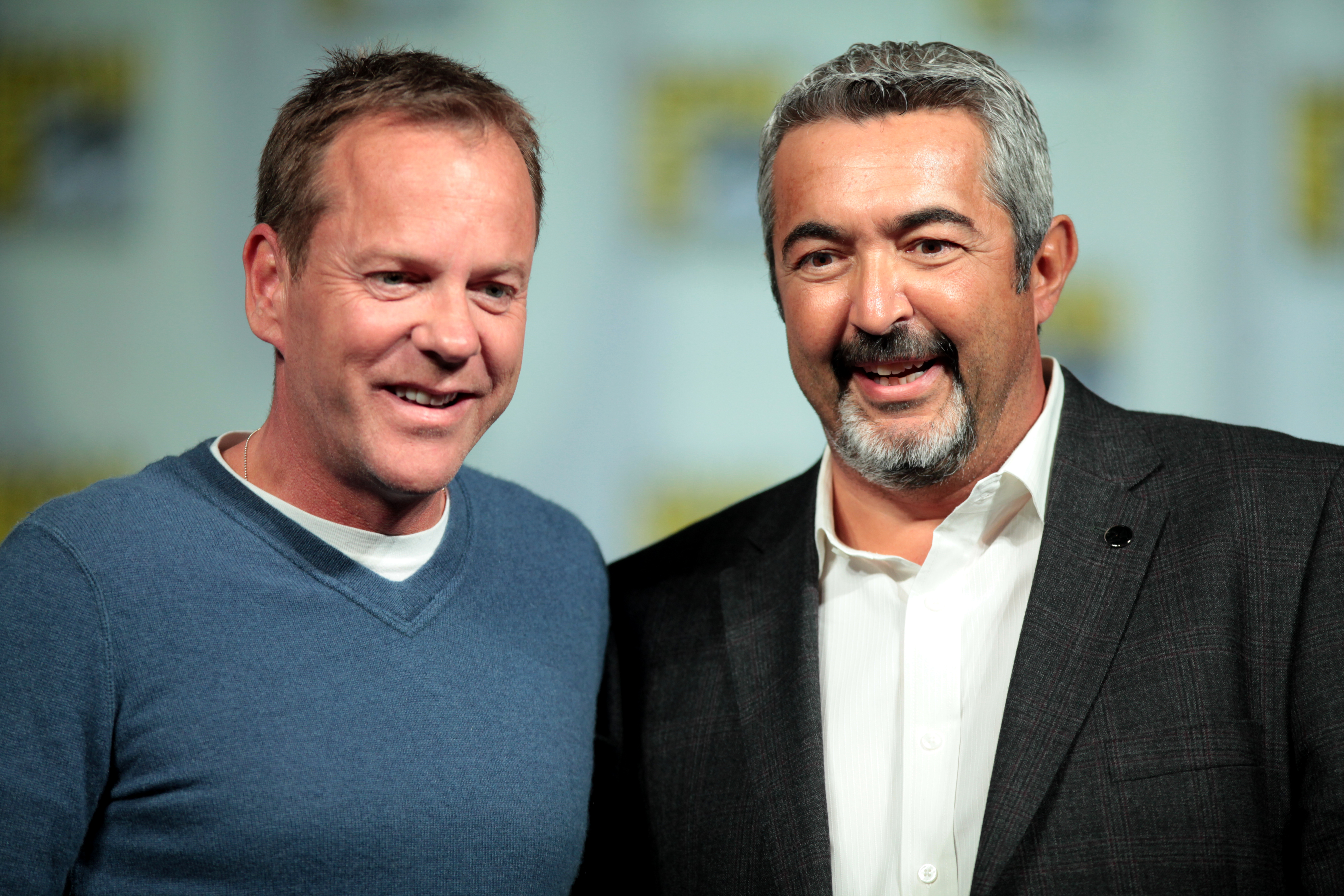 Kiefer Sutherland and Jon Cassar speaking at the 2014 San Diego Comic Con International, for "24: Live Another Day", at the San Diego Convention Center in San Diego, California.